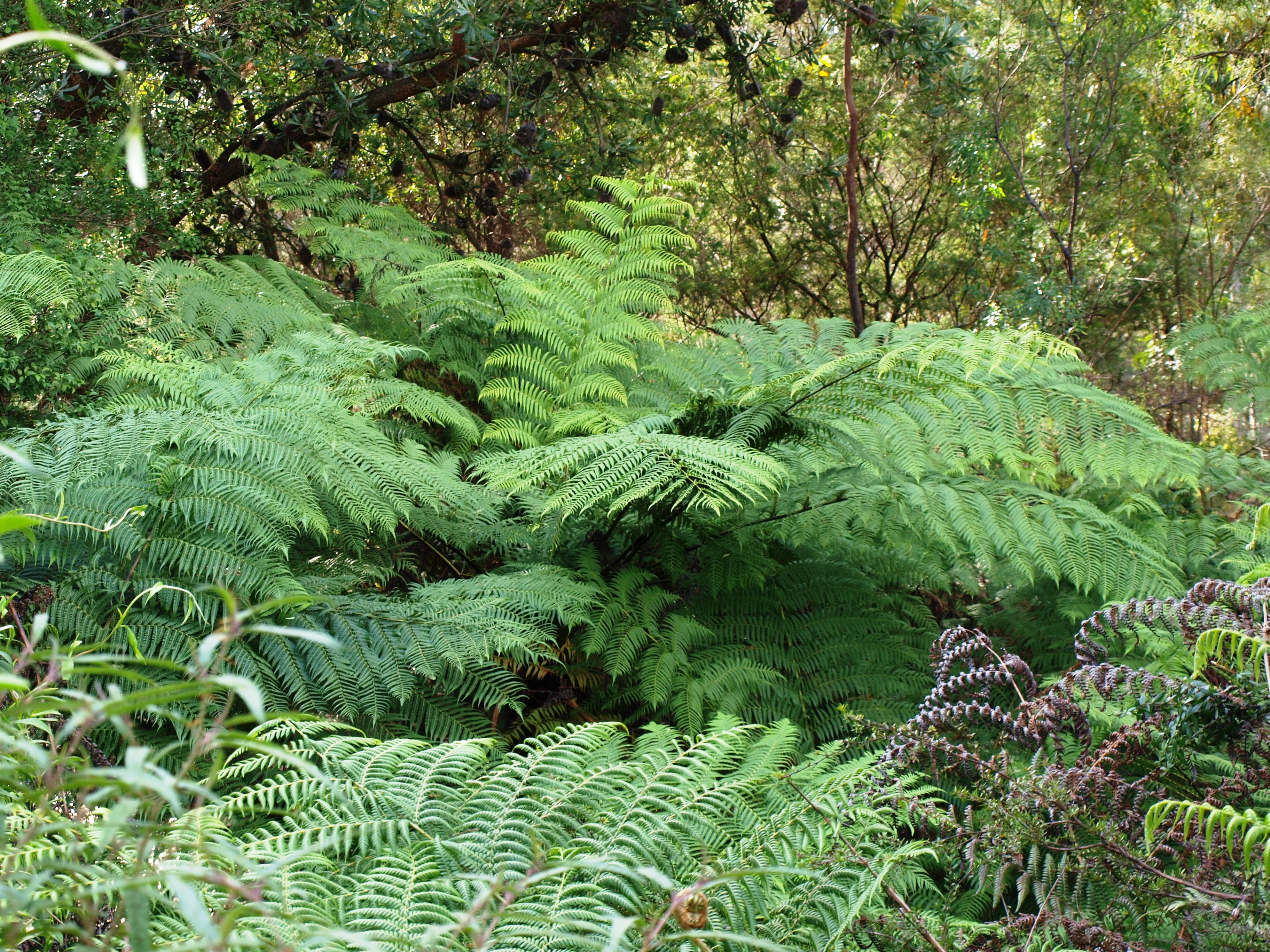 Australian National Botanic Gardens